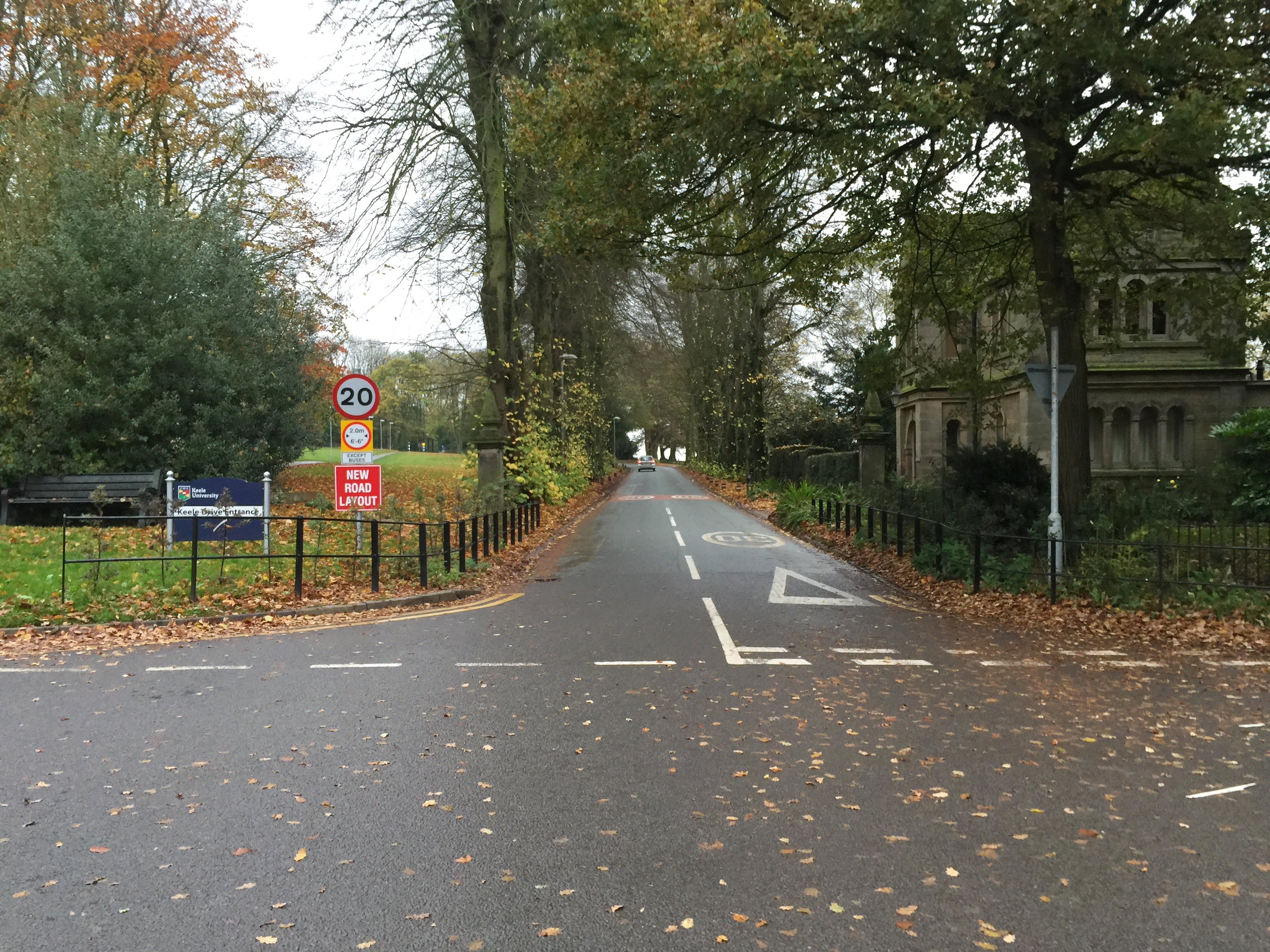 Keele University Western Entrance